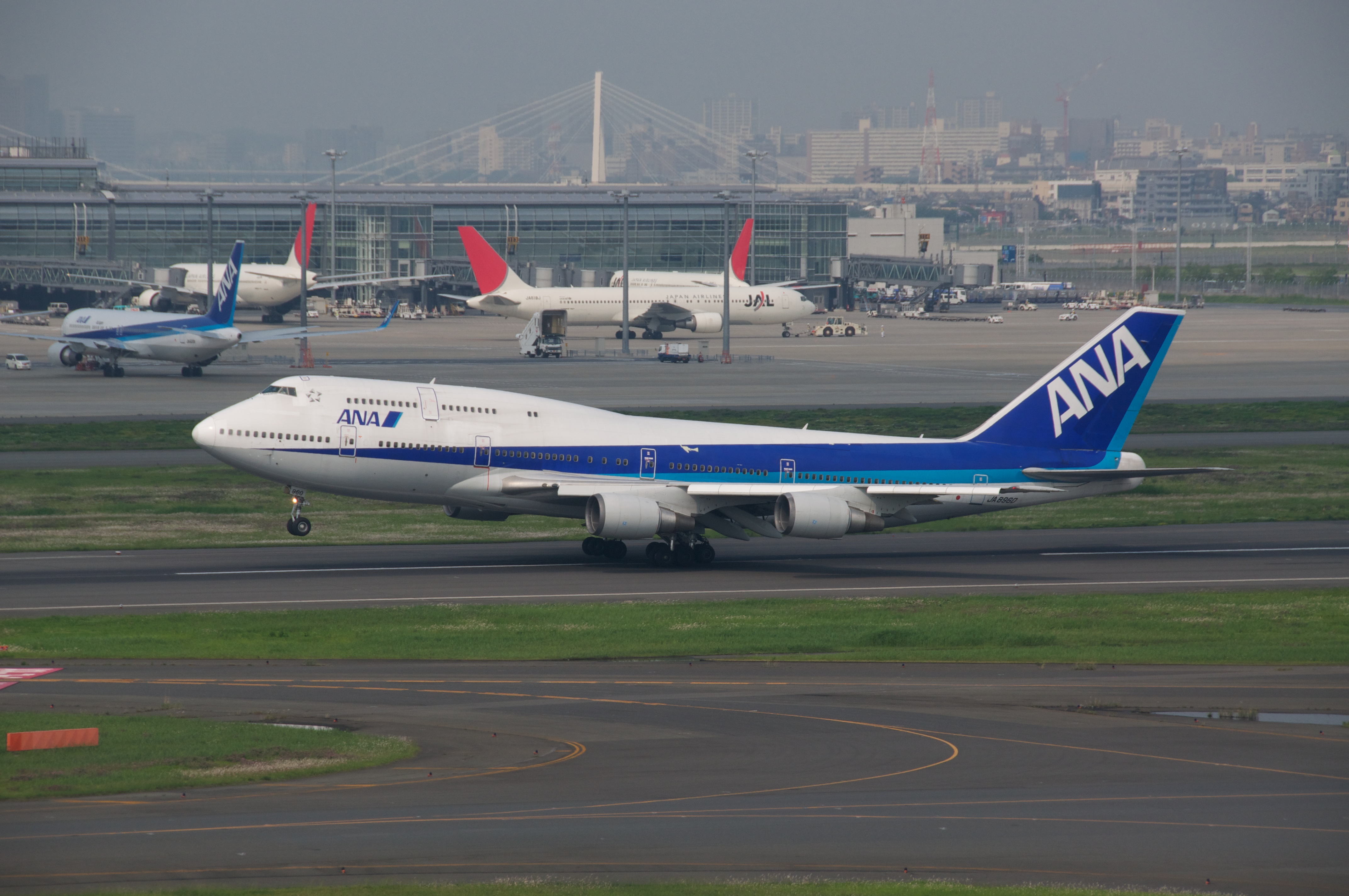 Departing Tokyo International Airport HND on domestic service